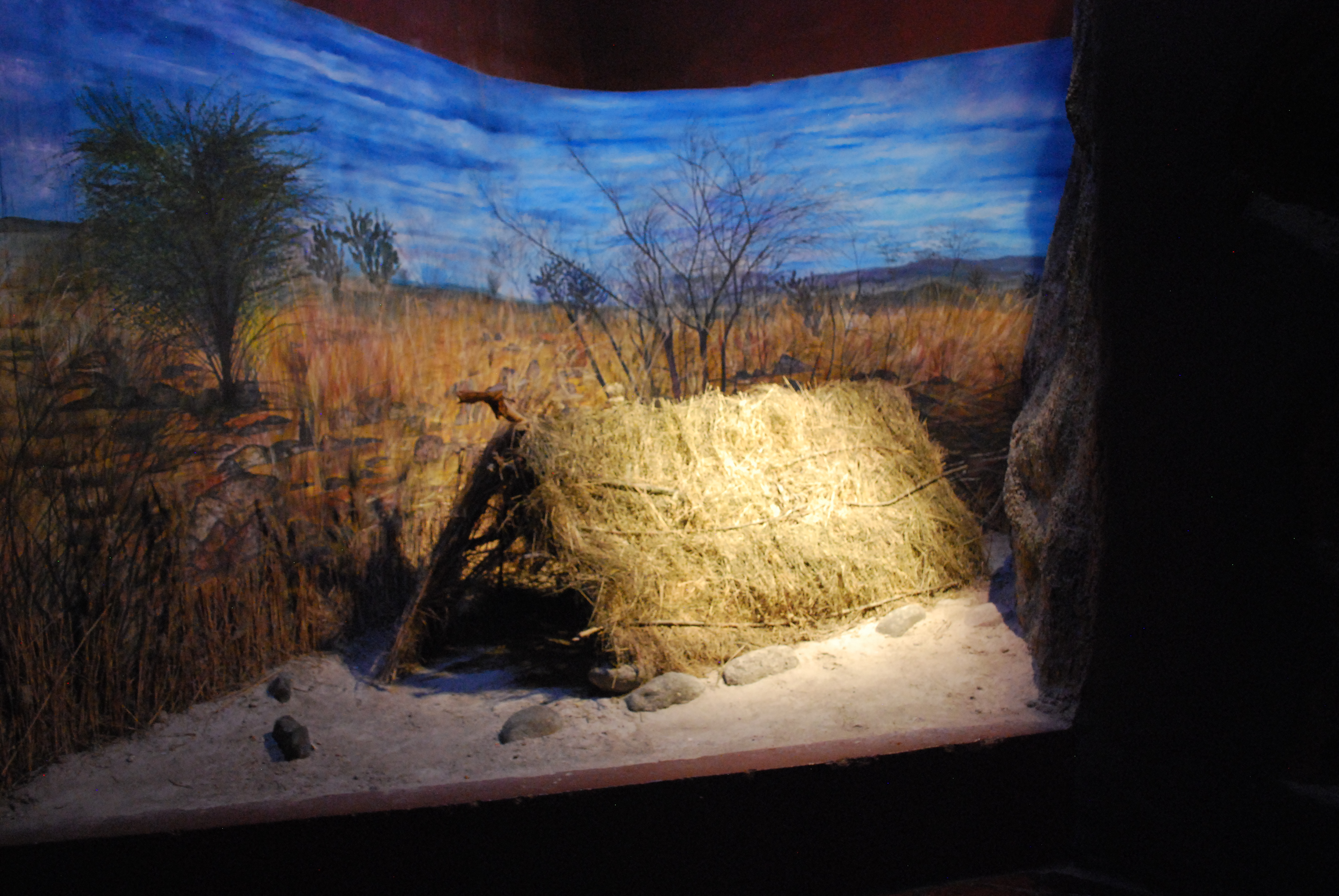 Loma San Gabriel style hut on display at the Museo de Arqueología de Durango Ganot-Peschard in Victoria de Durango, Mexico